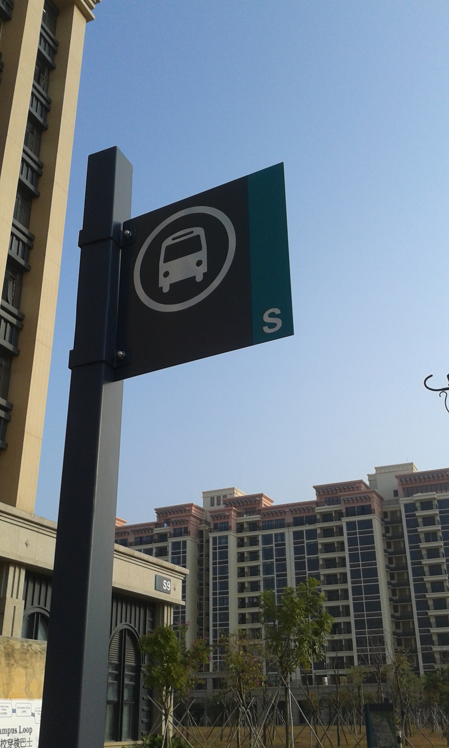 a schoolBus stop at UM